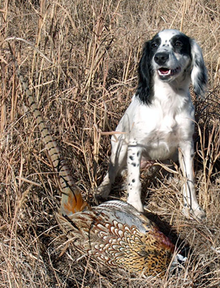 Field Bred English Cocker Spaniel with Pheasant in the United States. Taken by Randy Janke who released this photo on 3/20/06